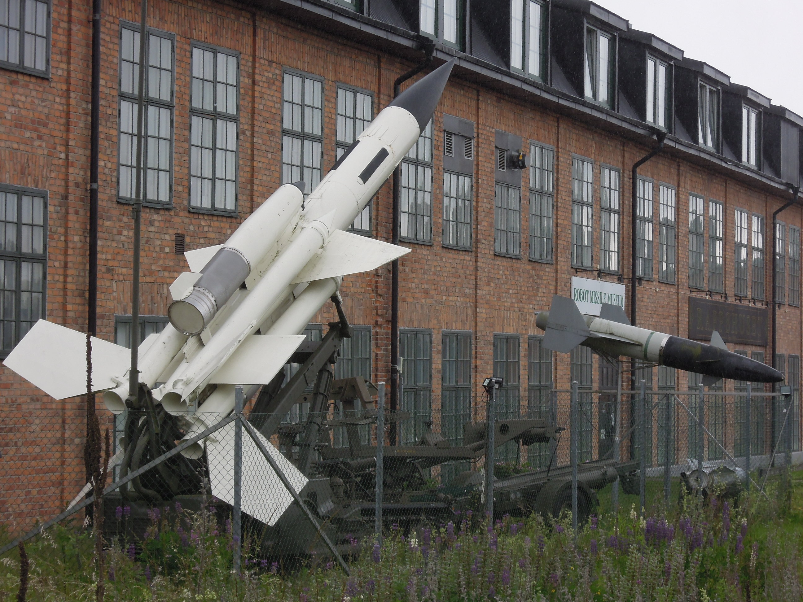 Arboga robot missile museum with a surface-to-air RB68 Bristol Bloodhound missile in front and an airborne test torpedo RB 303 to the right.